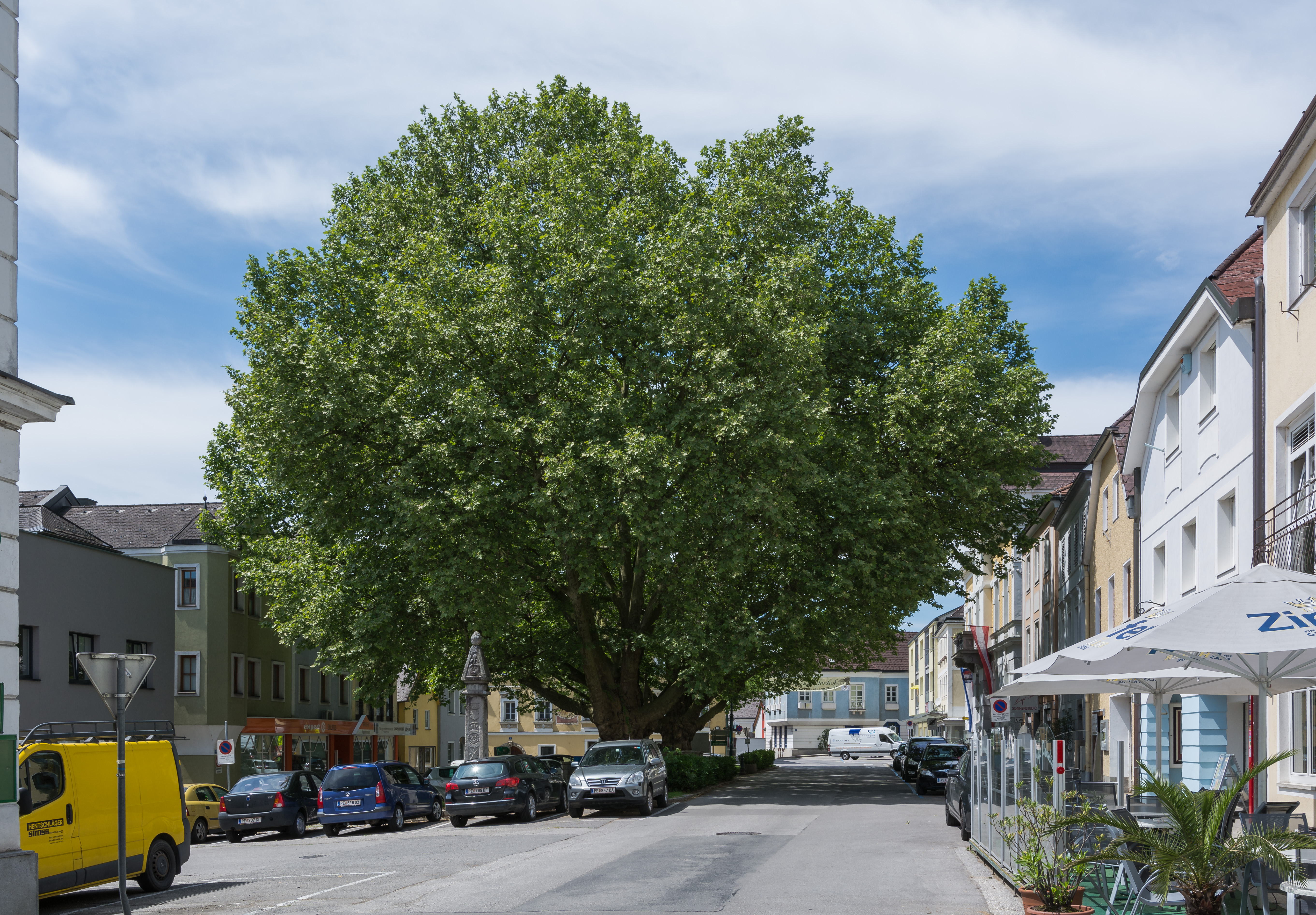 The two Platanus acerifolia are located in the marketplace of Mauthausen and protected as natural monument of Upper Austria. This media shows the natural monument in Upper Austria with the ID nd253.